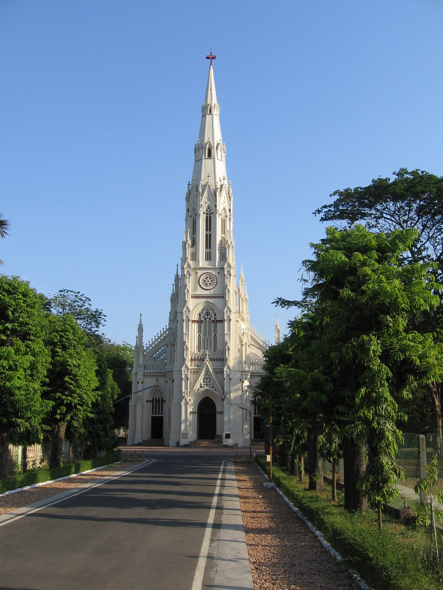 The neo-gothic church is at the center of the Loyola College campus, Numgambakkam, Chennai.